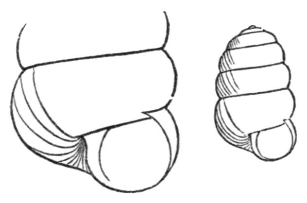 drawing of the shell of Columella edentula